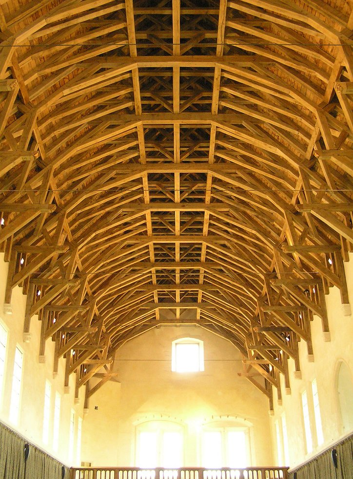 Hammerbeam roof Source [1]